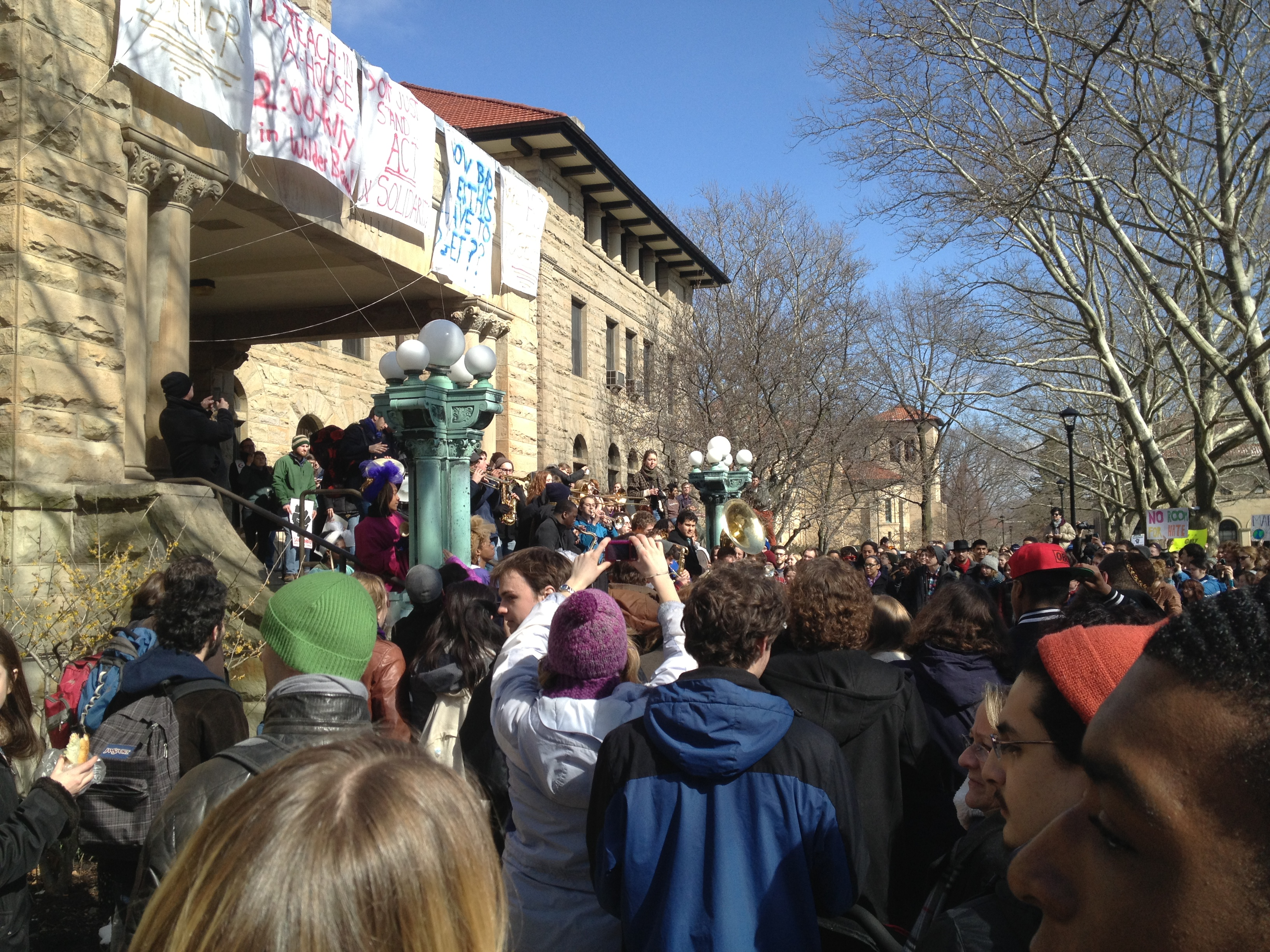 A band plays to resolve communal issues at Oberlin College.